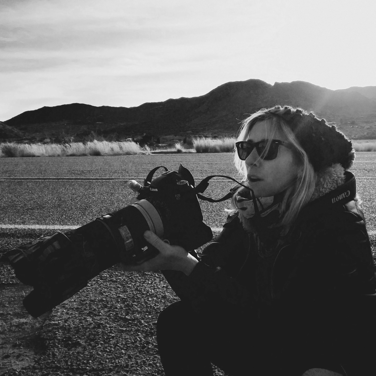 Argentinean Visual artist Gaby Herbstein.